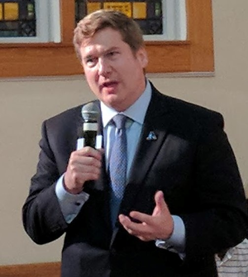 Picture of Peter Aman at a Forum at the Flipper Temple A.M.E. Church in Atlanta, GA, taken with my camera.